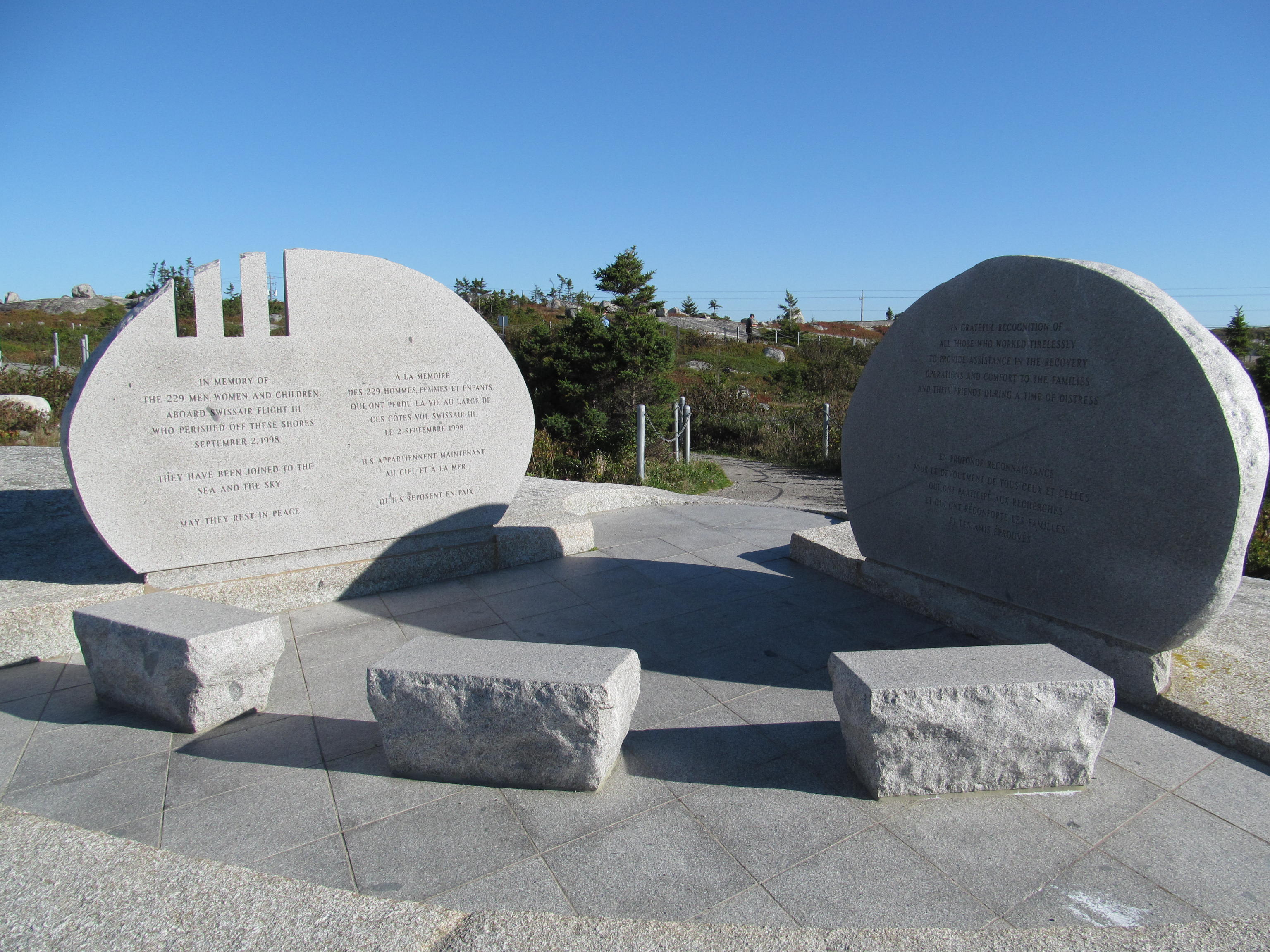 Swissair Flight 111 Memorial - Peggys Cove, Nova Scotia